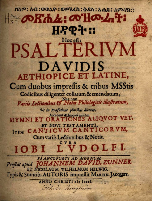 Psalter of David in Ethiopian and Latin, by Hiob Ludolf. Printed by Zunner in Frankfurt, 1701. Title page bears autograph of Johan Erik Ringström (bottom).